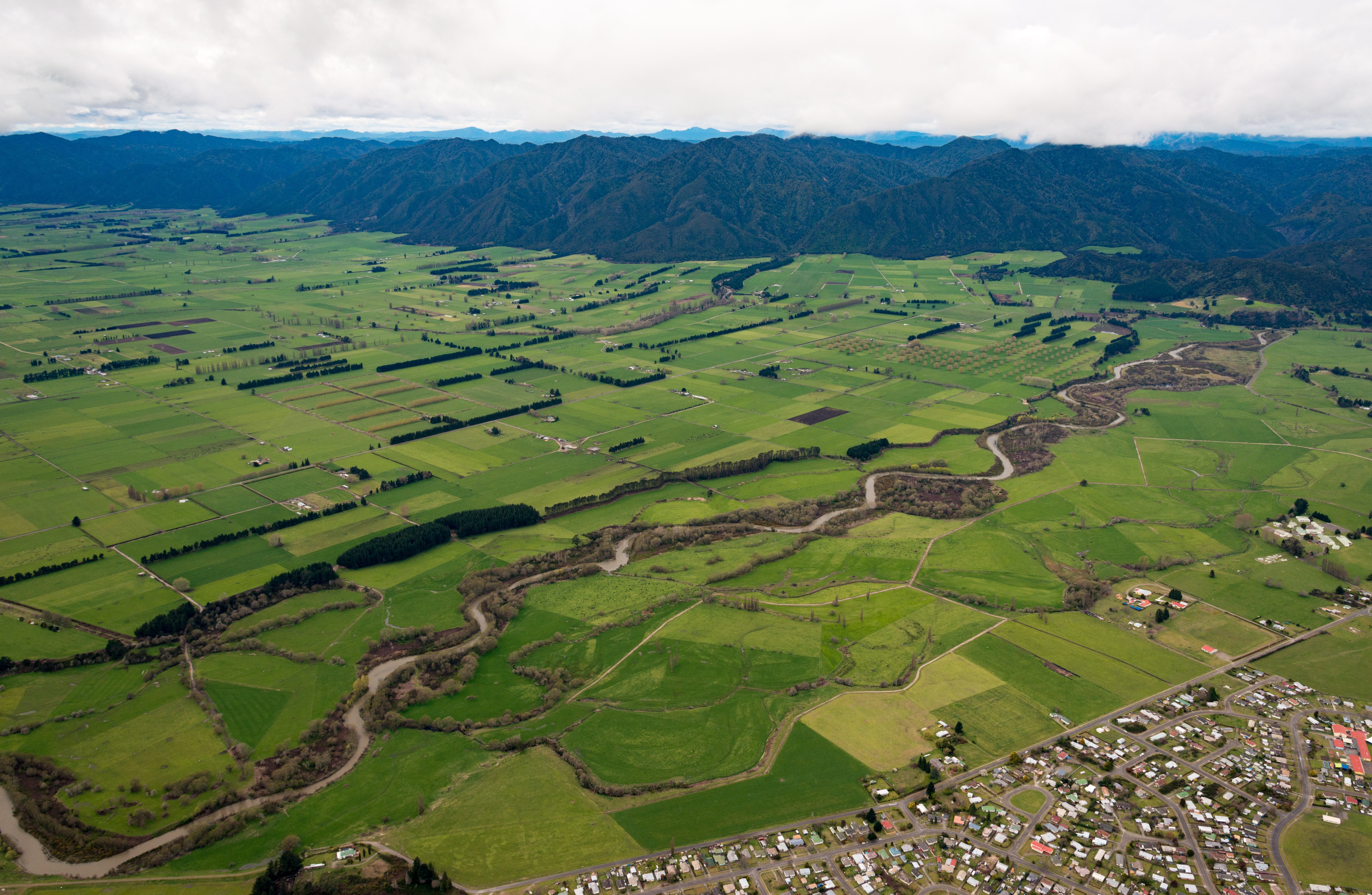 View from Murupara in the Whakatāne District of New Zealand, looking east over the Whirinaki River towards Galatea